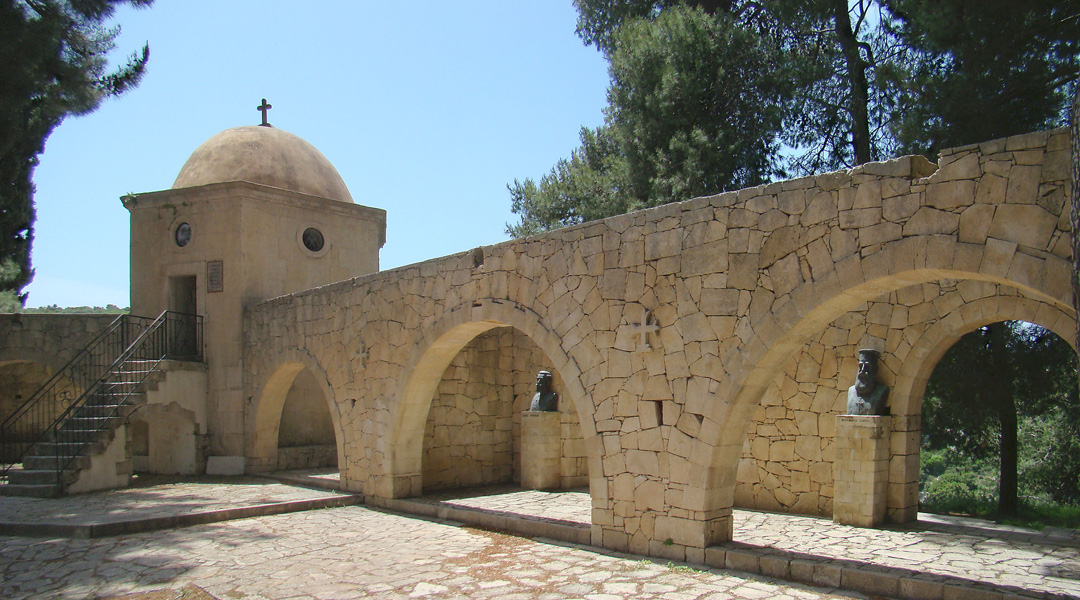 Arkadi Monastery, Crete, Greece. In the chapel on the left are stored the relics of the victims of the 1866 siege.